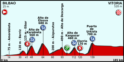 Profile of the 20th stage: Vuelta a España 2011